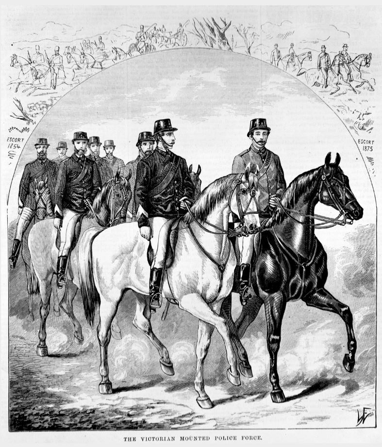 Victorian Mounted Police Force 1875 - Engraving.